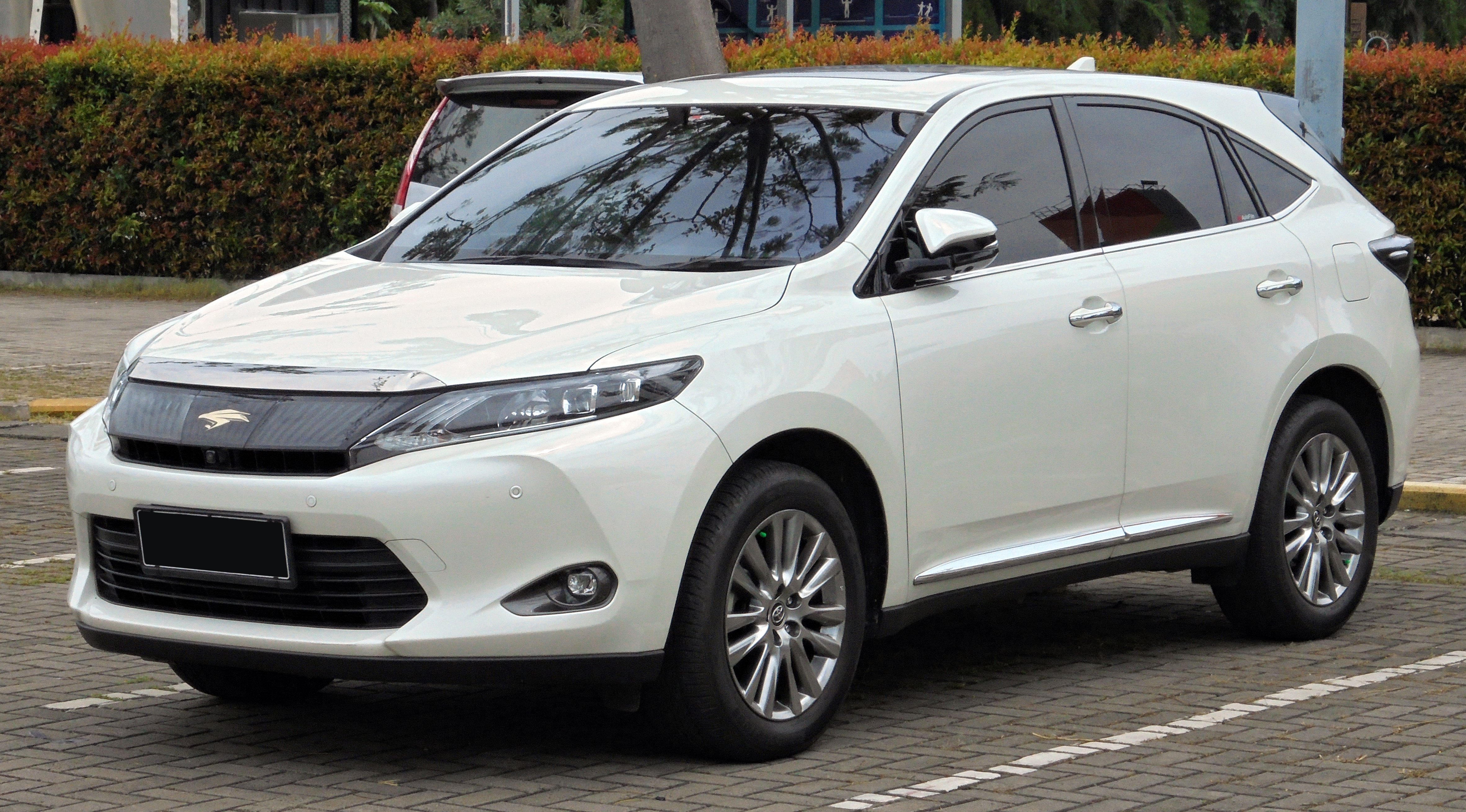 2015 Toyota Harrier Premium 2WD 2.0 (DBA-ZSU60W)